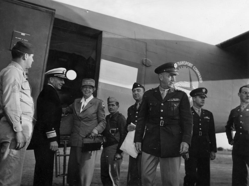 Eleanor Roosevelt arriving in Rockhampton, Queensland, 9 September 1943 President Roosevelt's wife, Eleanor Roosevelt visited American troops based in camps, hostels and hospitals in Australia during September 1943. She was welcomed to Rockhampton by the Army Minister, Mr Forde and attended by Lieut.-General Robert Eichelberger.